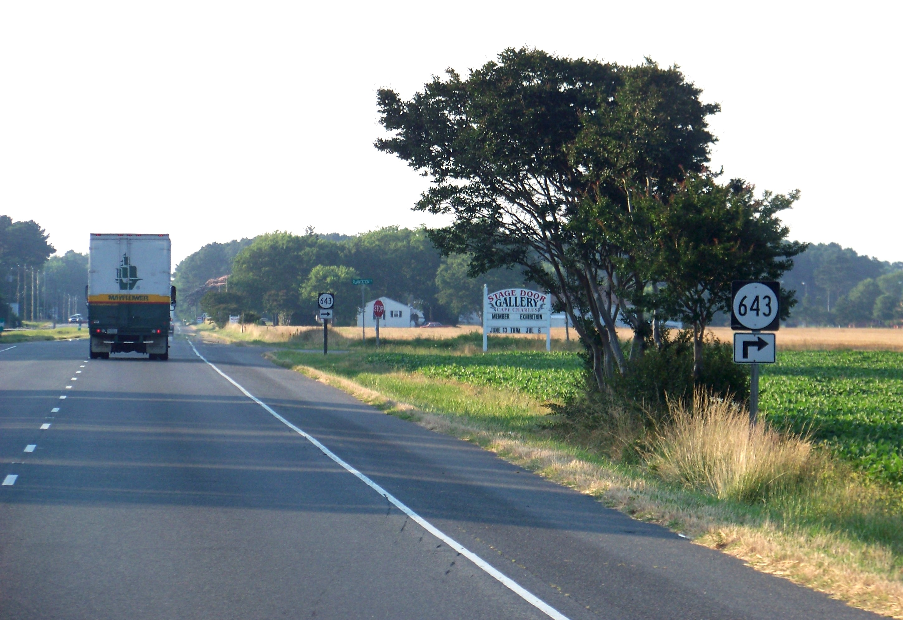 US-13 and Plantation Drive